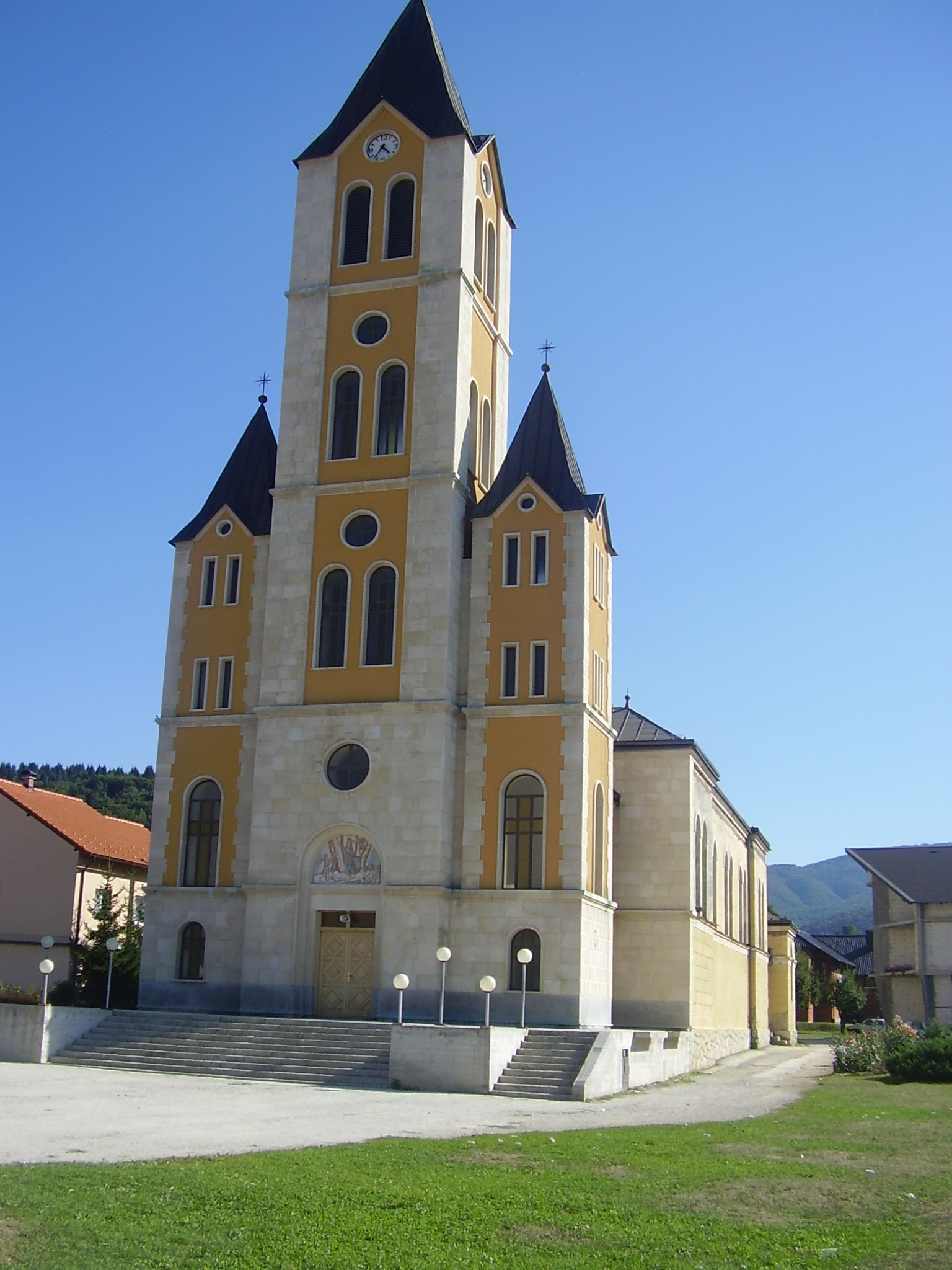 Vigin Mary Assumption church in Uskoplje